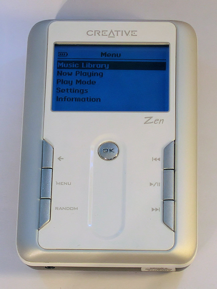 Creative Zen Touch, powered on and on main menu with english interface.